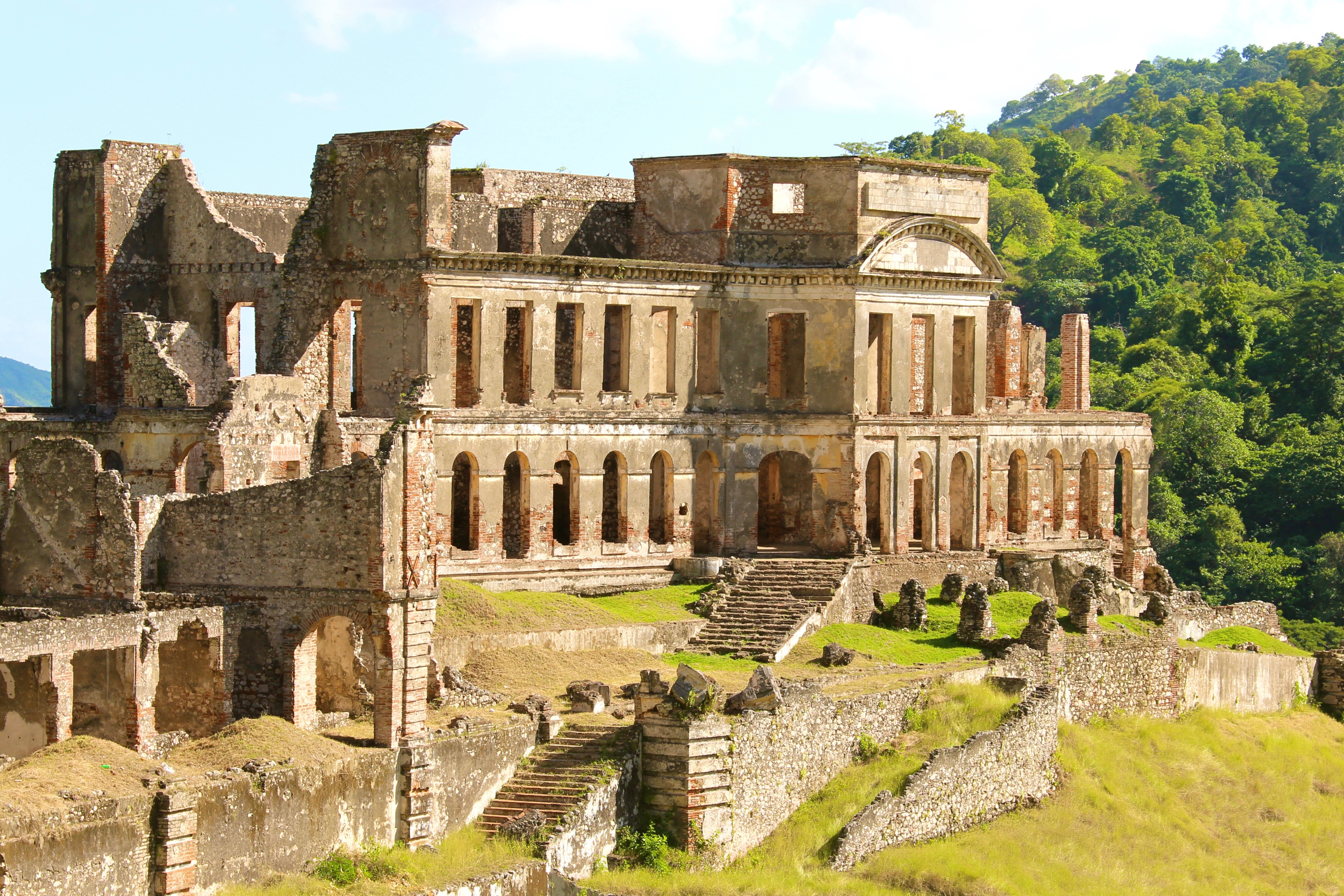 Sans-Souci Palace, National History Park, Haiti Kreyòl ayisyen : Palè Sansousi, Pak Nasyonal Istorik, Ayiti